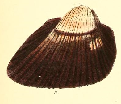 Anadara uropigimelana (Bory de Saint-Vincent, 1824), Arcidae, Bivalvia (= Arca holoserica Reeve 1844) from Reeve, 1844: pl. 3 fig. 11